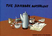 The Handbok Anthology